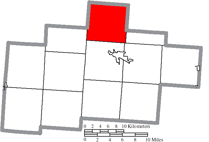 Map of the municipal and township boundaries of Hocking County, Ohio, United States, as of the 2000 census, with the location of Marion Township highlighted. Township borders are shown only in unincorporated areas in order to differentiate incorporated and unincorporated areas more clearly.